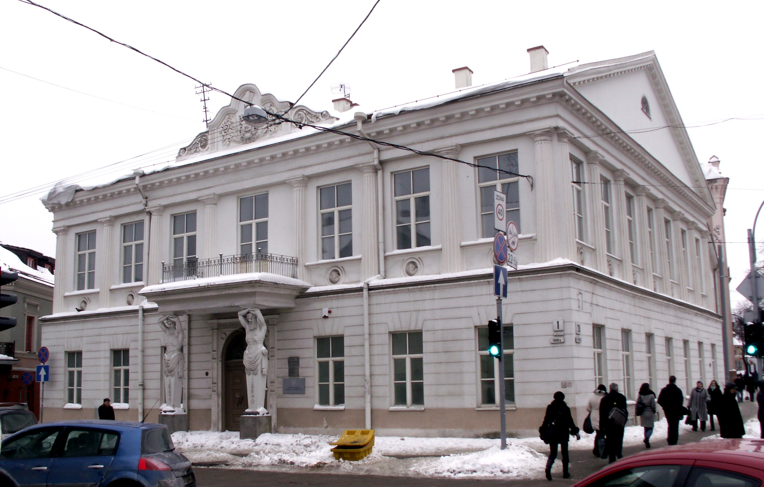 Tyszkiewicz Palace in Vilnius, Lithuania